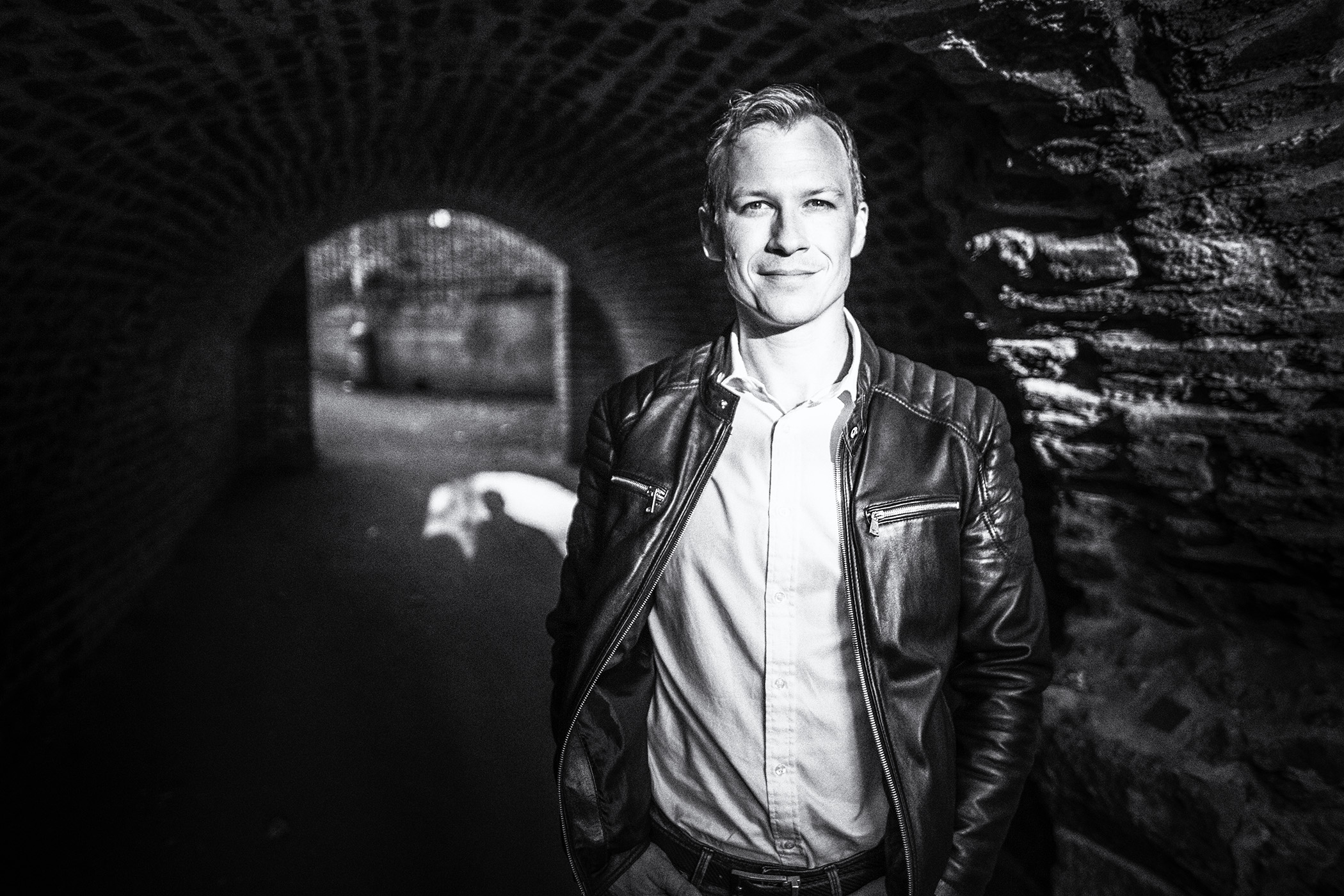 photo of writer Pavel Rencin